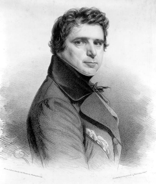 Charles Downing d 1845 Served as the fourth Territorial Delegate to the U.S. House of Representatives. Elected to the Twenty-fifth and Twenty-sixth Congresses (March 4, 1837-March 3, 1841). His son, C.W. Jr., was Florida Secretary of State from 1849 to 1853.